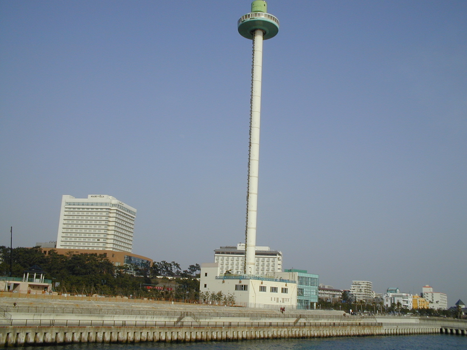 MAIKO TOWER